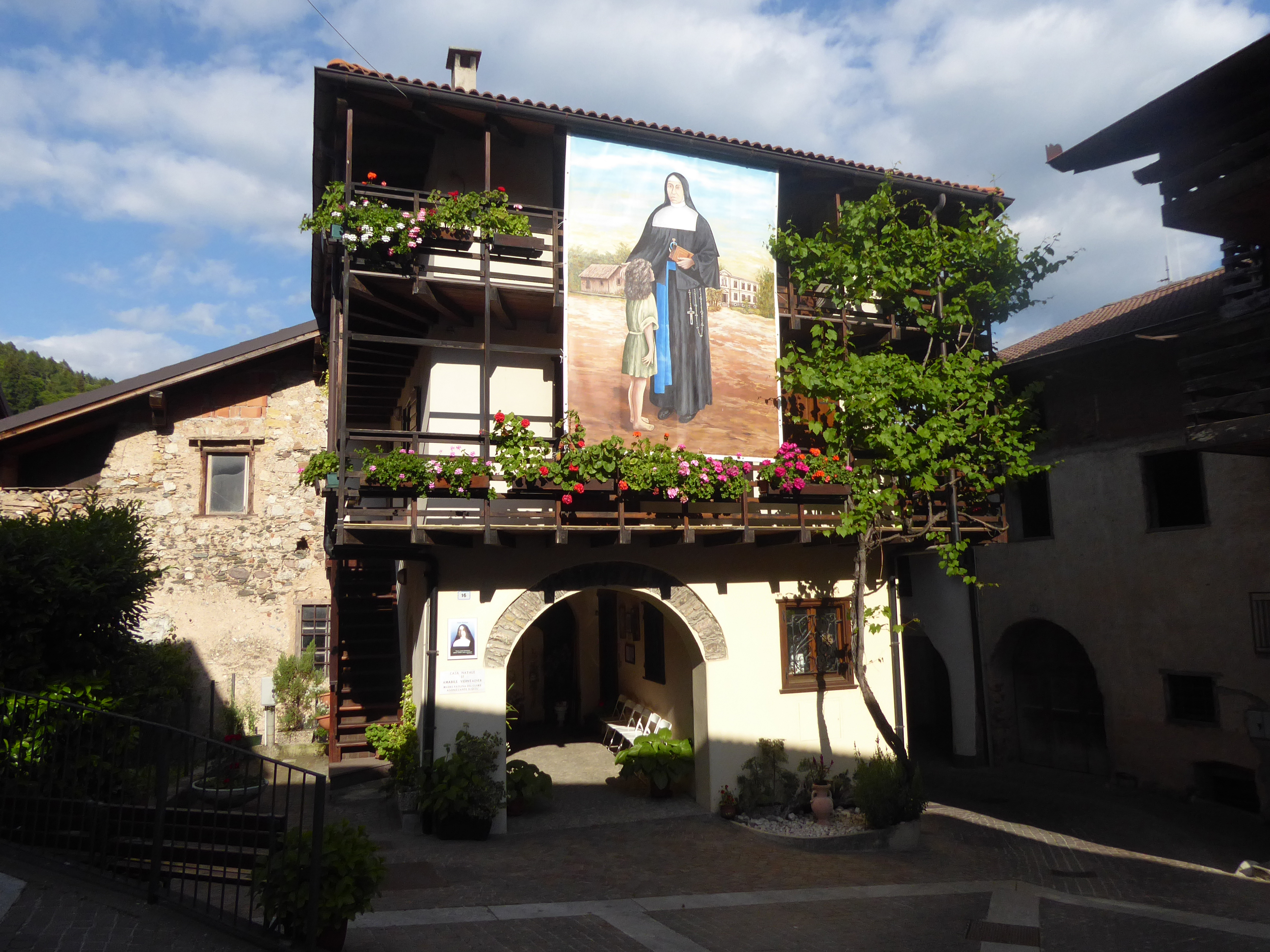 Vigolo Vattaro (Altopiano della Vigolana) - House of saint Paolina Visintainer